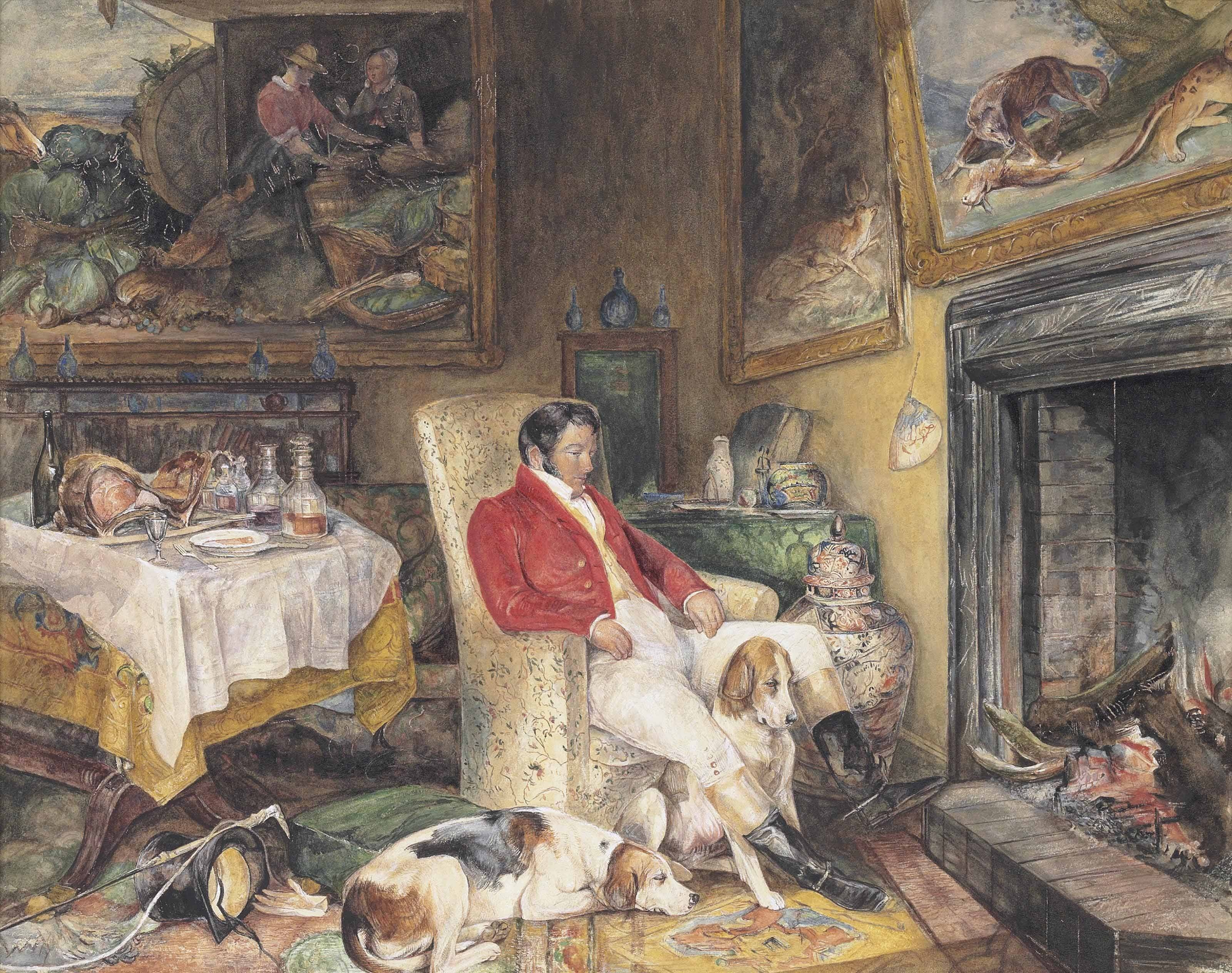 John Crocker Bulteel (1793-1843), of Fleet, Holbeton, Devon, MP for South Devon 1832-4, Sheriff of Devon 1841. A picture of perfect contentment, relaxing by the fireside at Flete after a hard day's hunting and a hearty meal, still in his hunting attire and with two of his favourite foxhounds at his feet. Christie's 2013 catalogue entry: He is seen here in his parlour taking his ease after a day’s hunting. With him, in prime position in front of the blazing fire, are two of his favourite hounds, possibly the same as those depicted by Lewis in his Marmion and Lazarus, foxhounds in the pack of J. C. Bulteel, Esq., exhibited at the Royal Academy in 1829 (no. 978; present location unknown). This or a similar image was engraved by his brother, C. G. Lewis, in 1834, as Fox hounds in the pack of J. C. Bulteel Esqre MP / from a drawing in the possession of Lord Northwick. The engraving was subsequently published in Sporting (1838, pl. 30, p. 105), an illustrated volume by C. J. Apperley (Nimrod), to accompany ‘Stanzas on two fox-hounds in the pack of J. C. Bulteel, Esq., M.P.’.